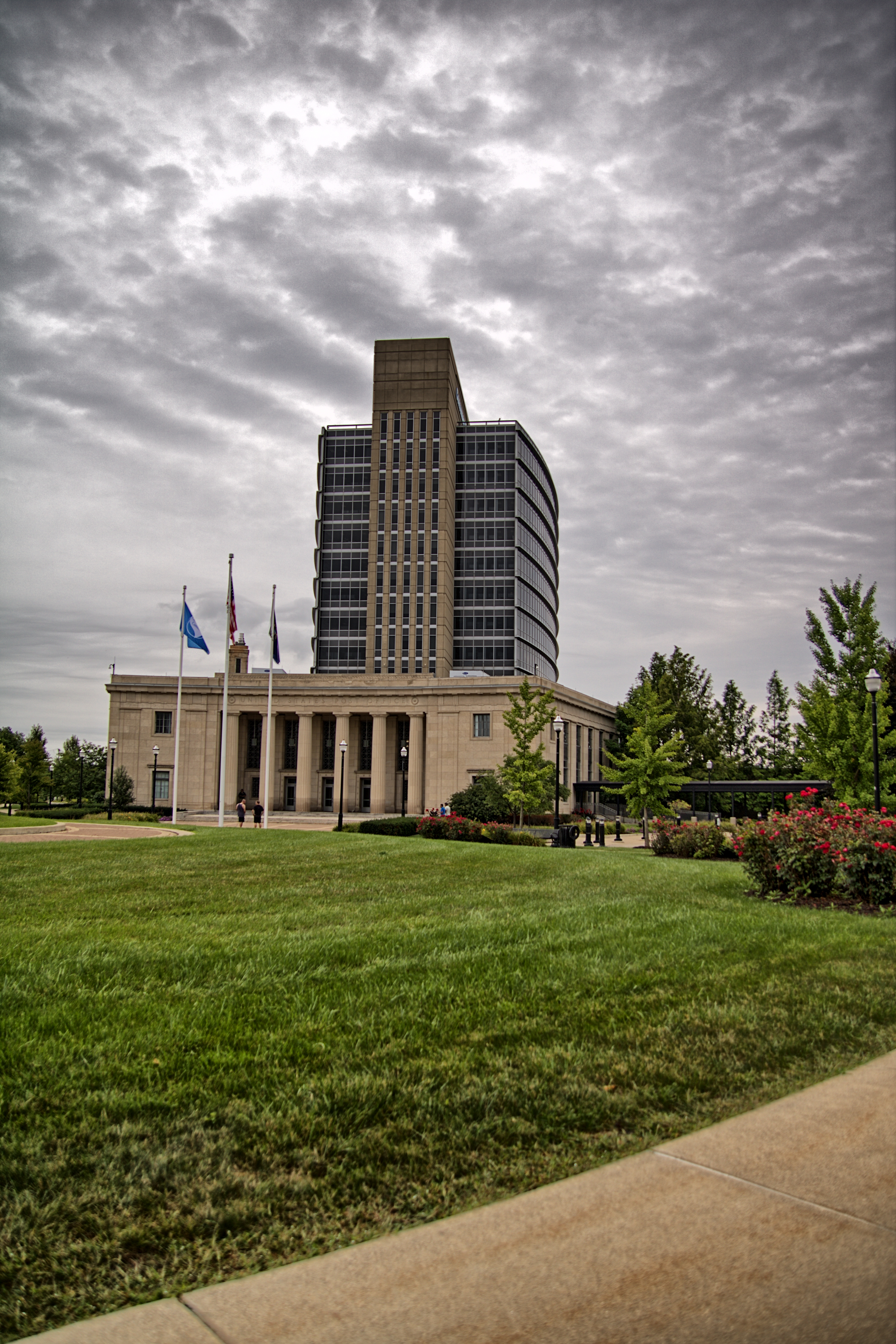 One Energy Plaza on the west side of downtown Jackson, Michigan. World Headquarters of Consumers Energy and CMS Energy.